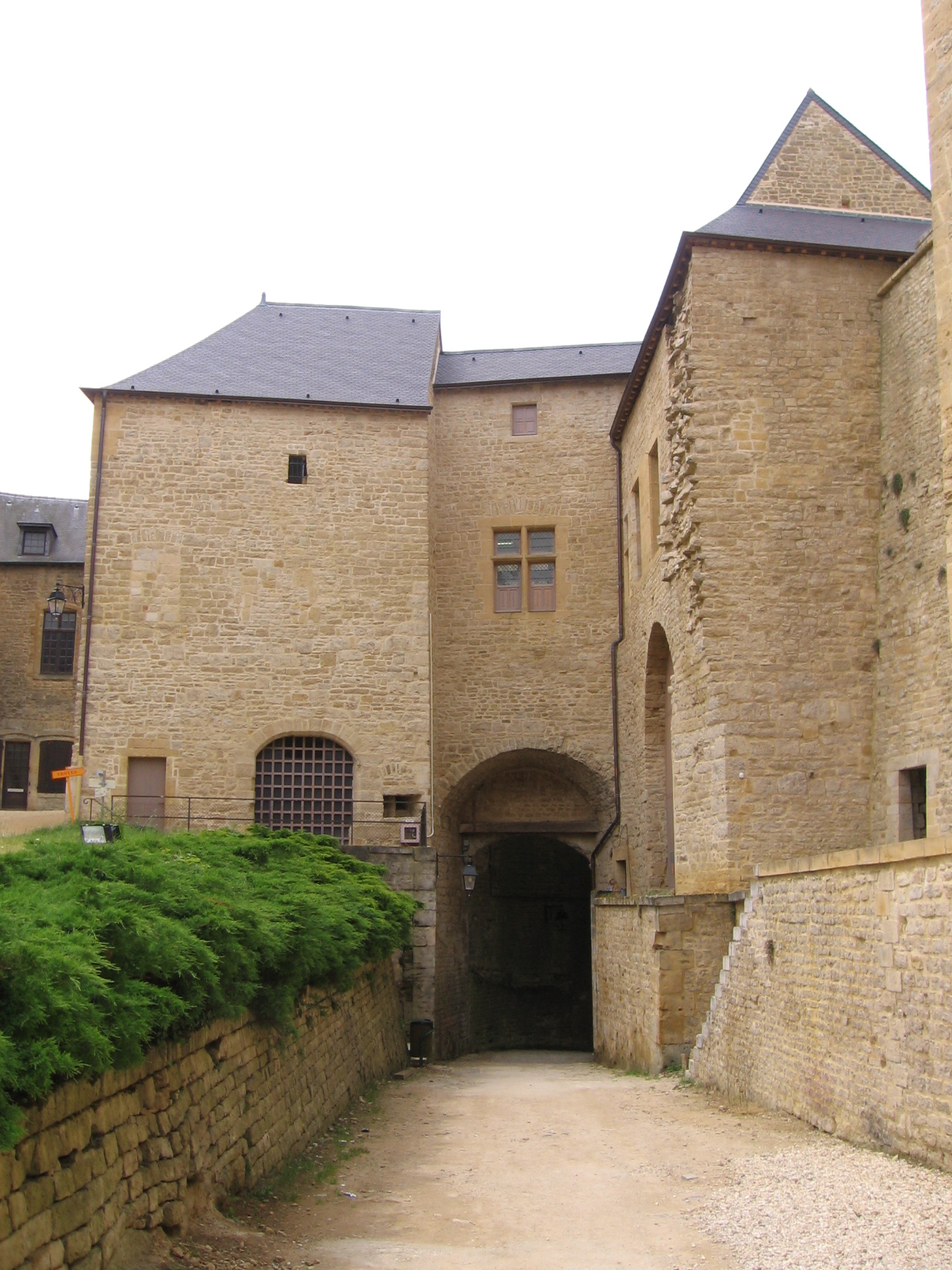 Sedan Castle (6/2006)